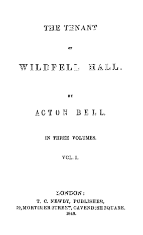 Title-page of the first edition of The Tenant of Wildfell Hall (1848)